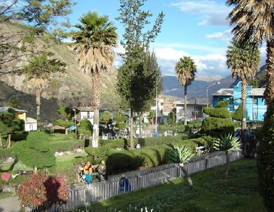 sihuitas welcome